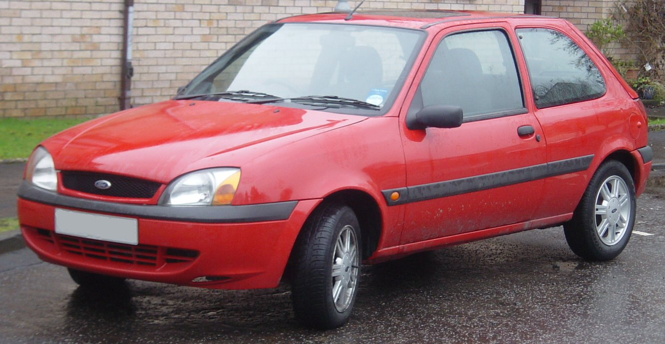 created by Mazurka